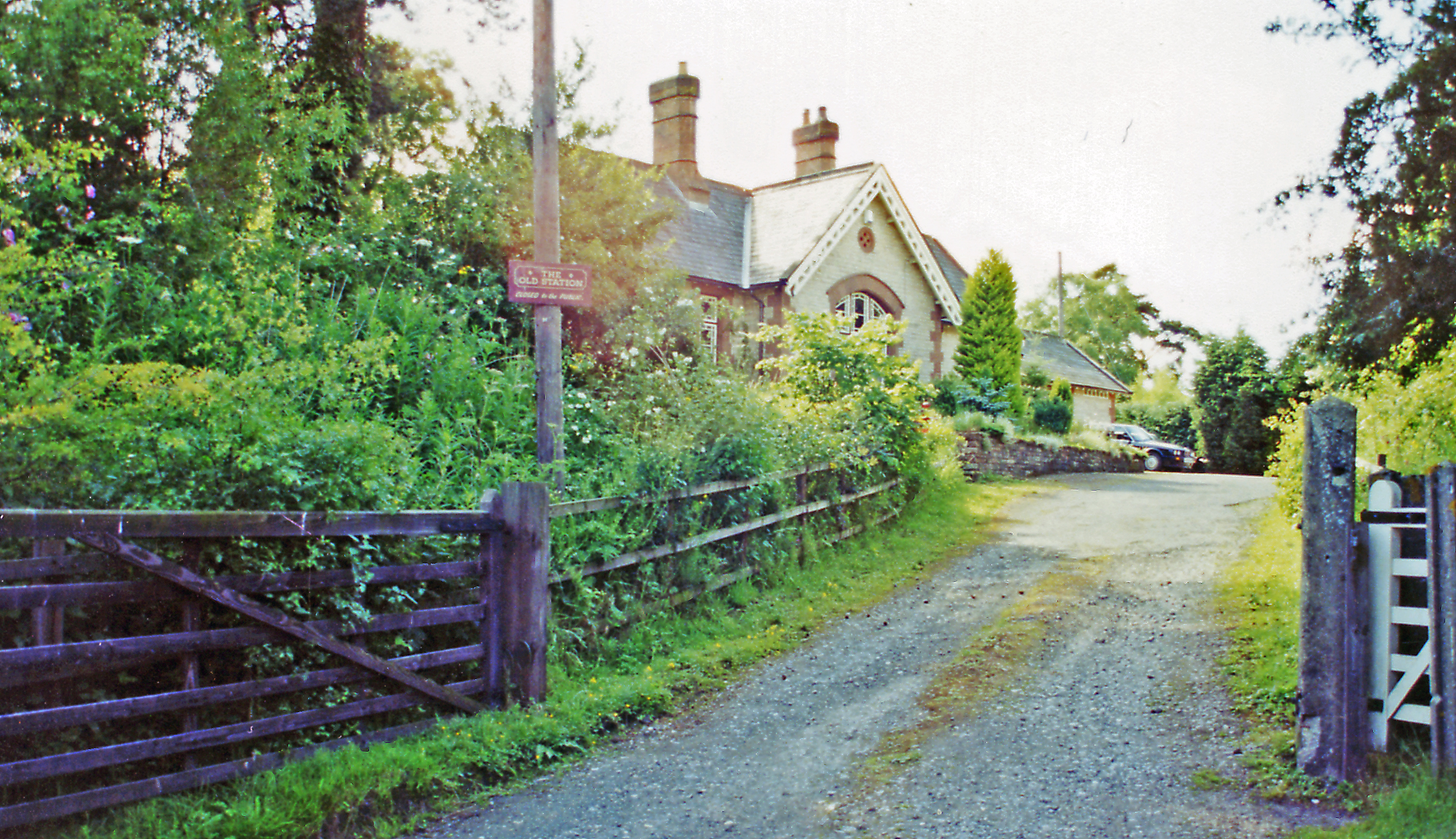 Little Salkeld: former station, 2000. View northward on the Up side, towards Carlisle: ex-Midland Settle & Carlisle main line. In spite of the resurrection of many stations on the S&C line in recent years, this is not one; it remains in private hands - see the notice.